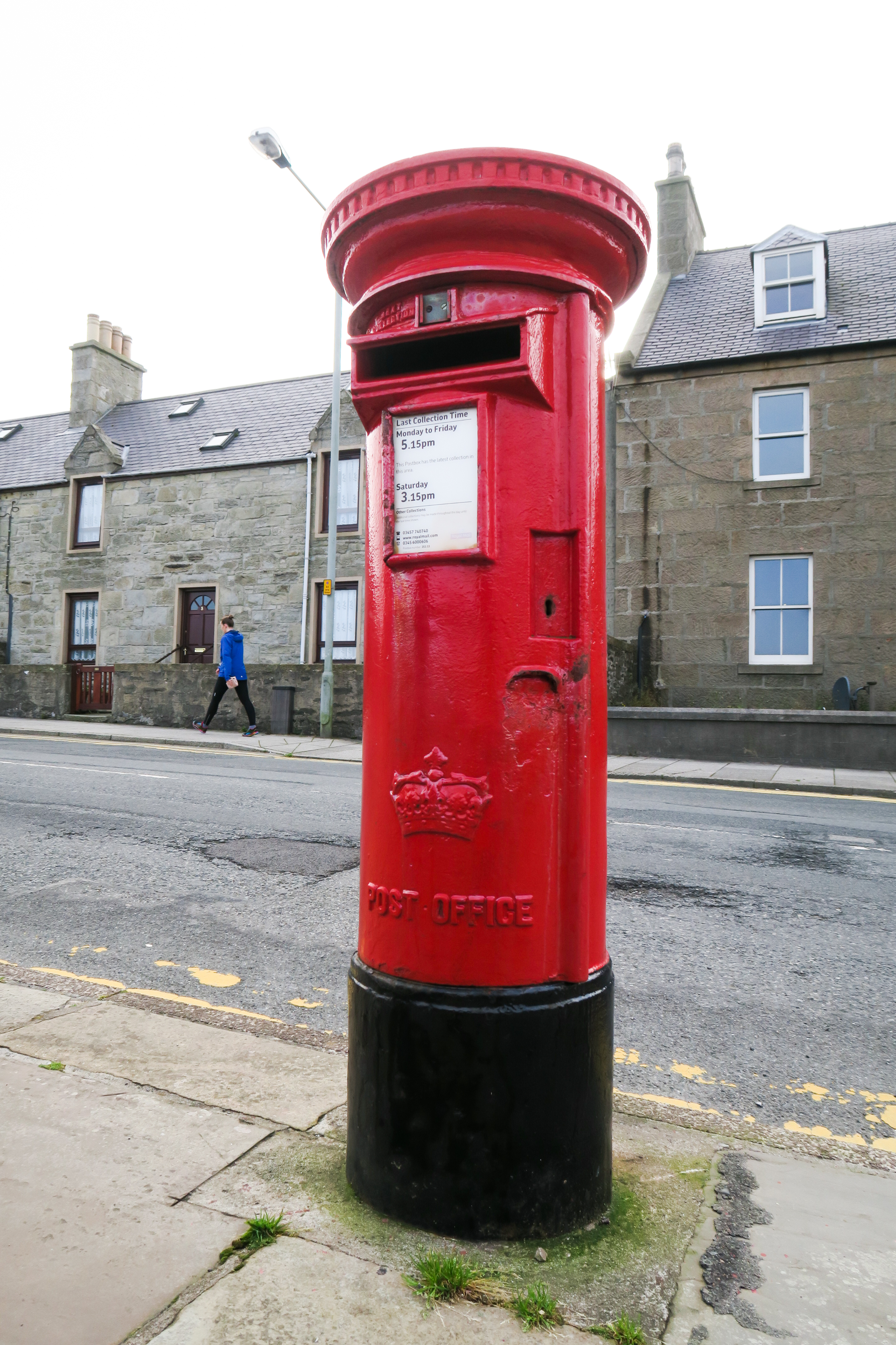 Pillar box in Lerwick, Shetland. Note Crown of Scotland cypher.